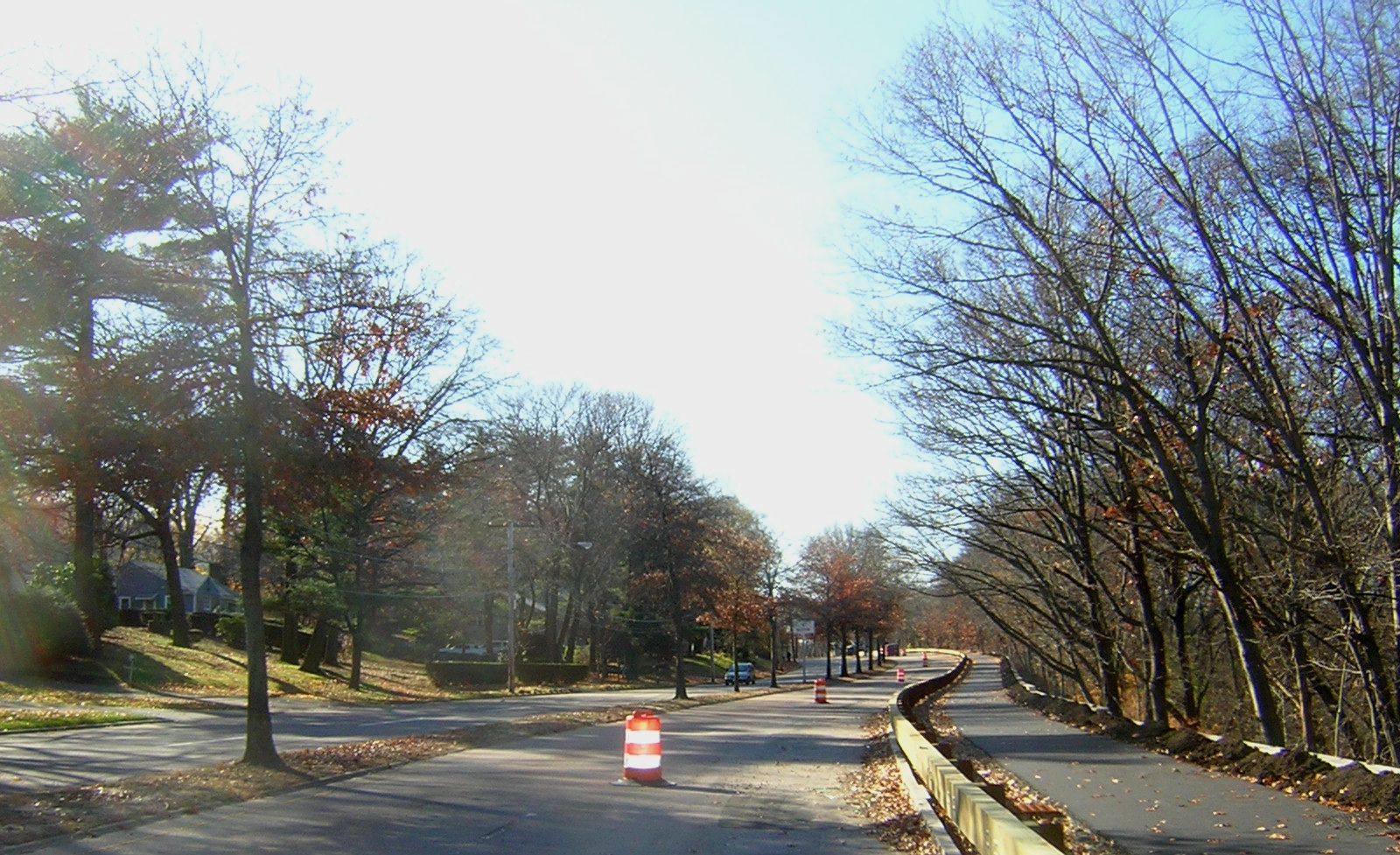 Truman Parkway, Milton (foreground) and Hyde Park (Boston) (background), MA